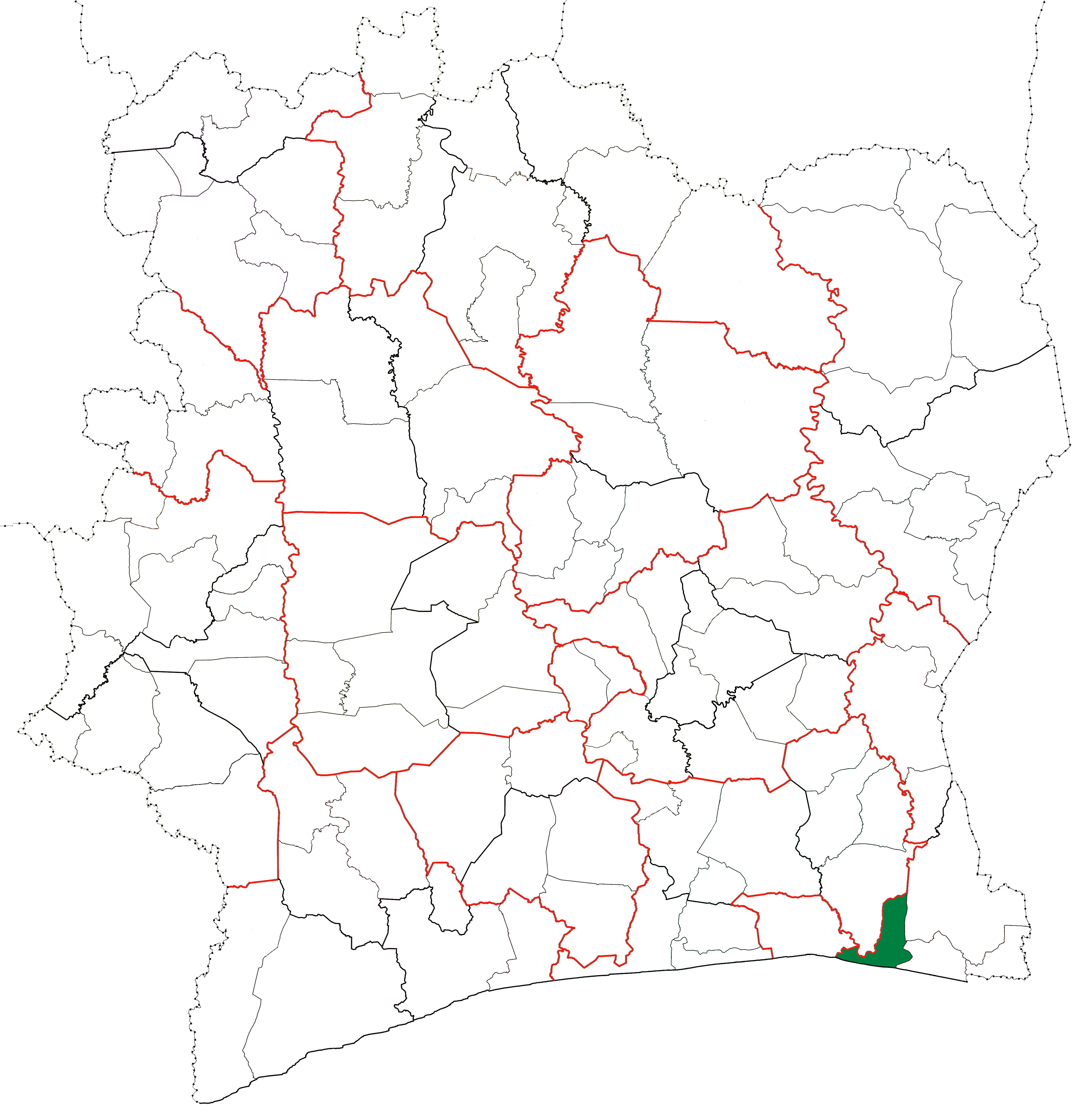 Locator map for Grand-Bassam Department in Côte d'Ivoire.